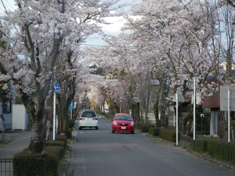 The front approach to Nogi Shrine. Nasushiobara, Tochigi, Japan.